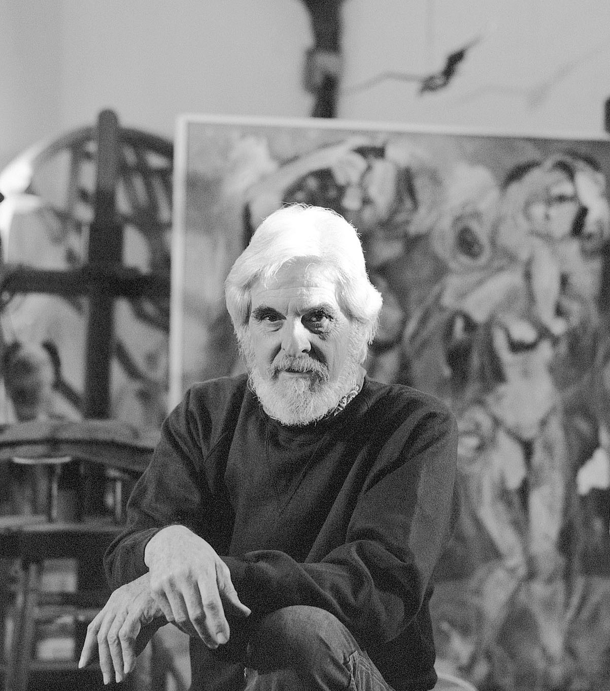 Photograph of Panamanian-Born Sculptor Justo Arosemena in his studio in La Ceja, Colombia.